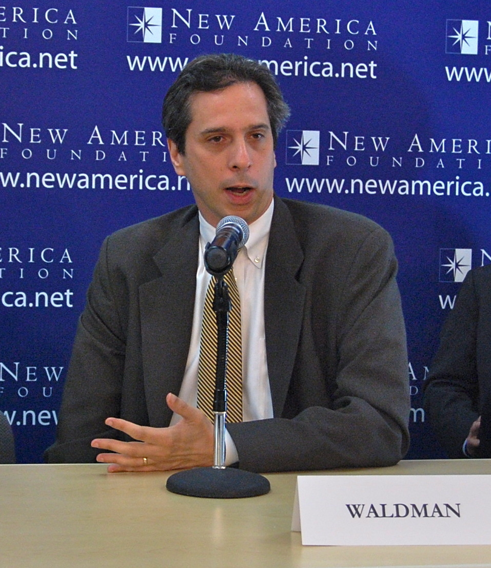 Steven Waldman at a New America event in 2012